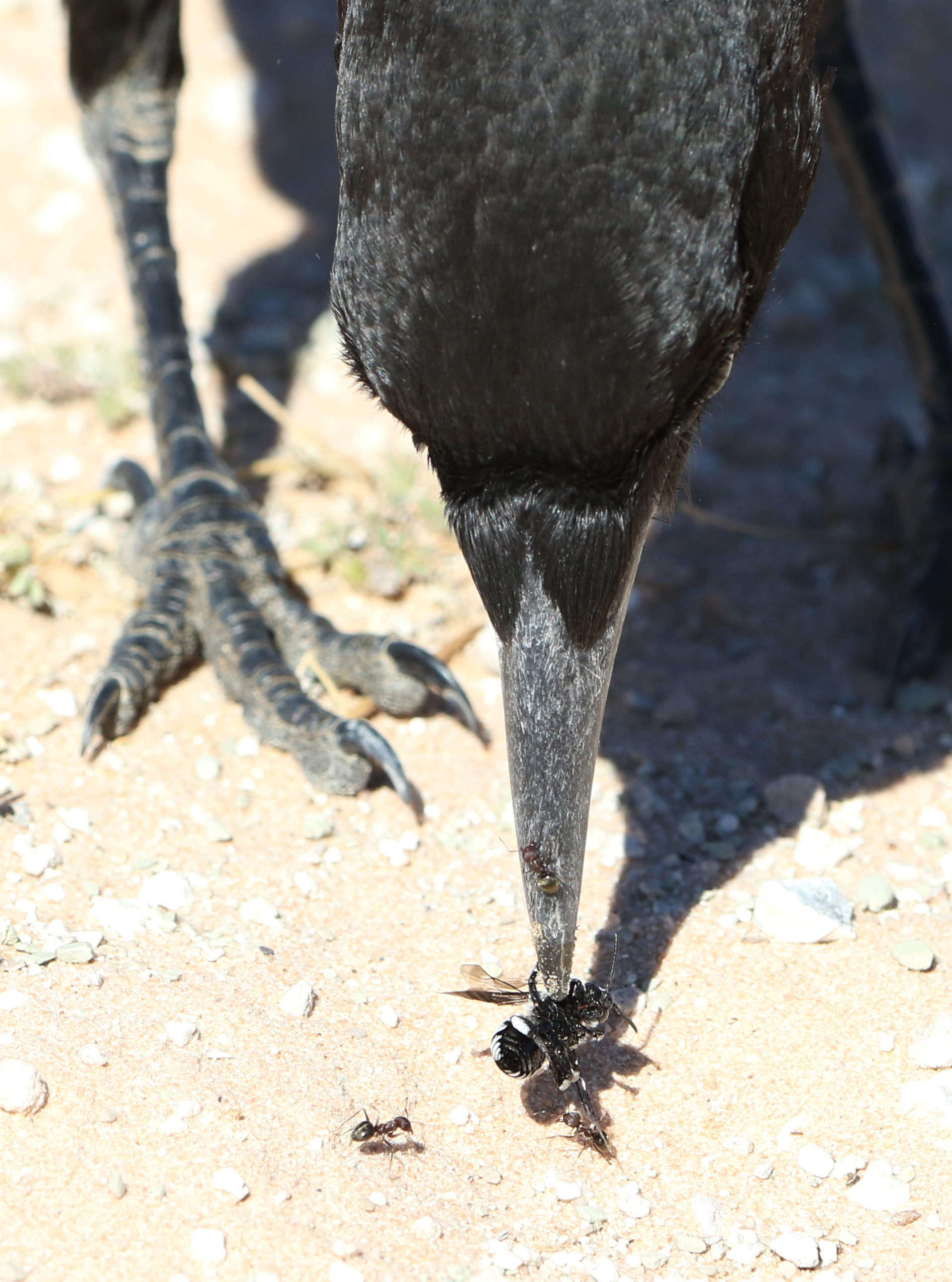 Cape crow, Corvus capensis, at Kgalagadi Transfrontier Park, Northern Cape, South Africa